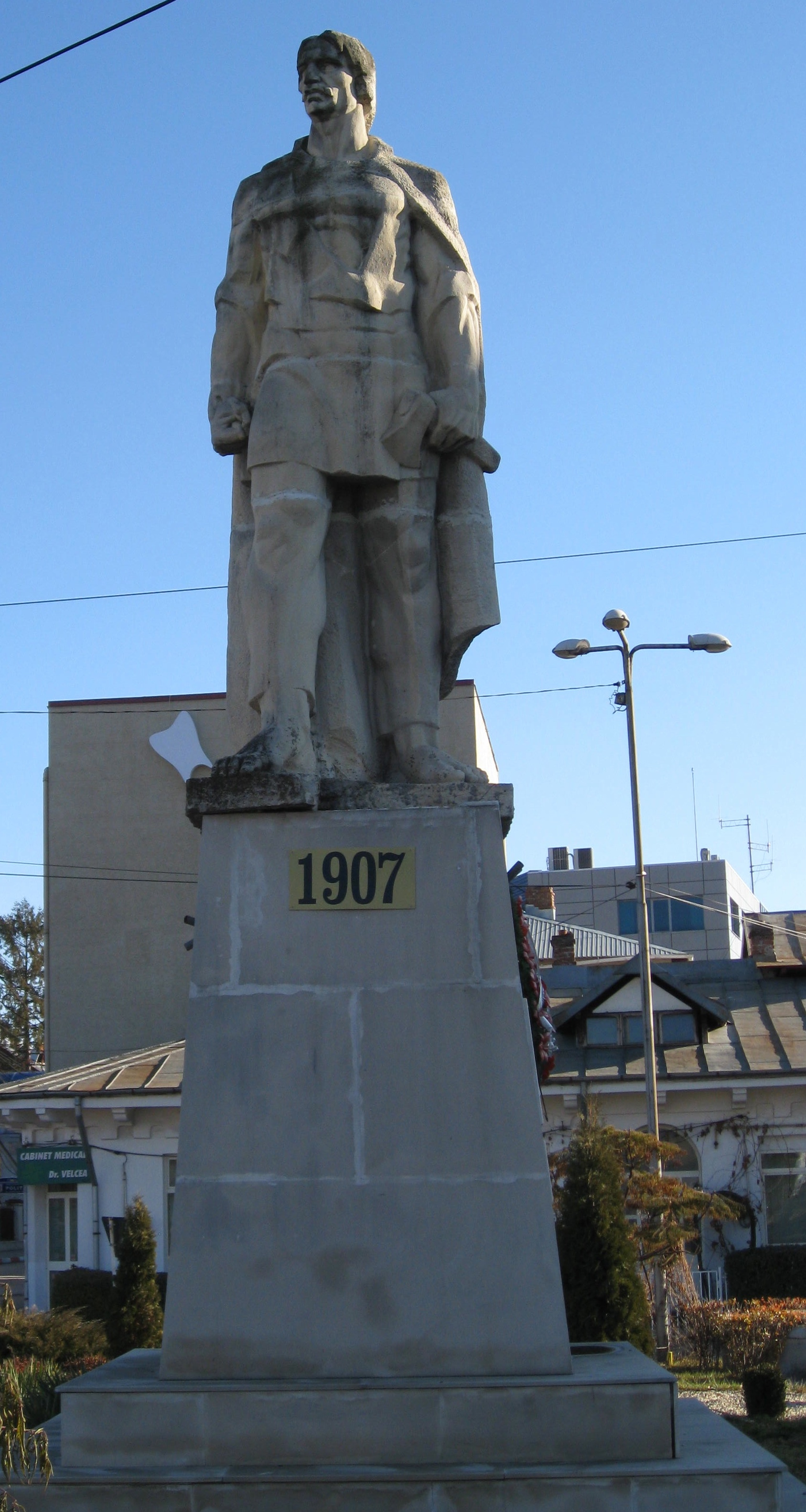 Monument commemorating the 1907 peasants' uprising, Piteşti, Romania